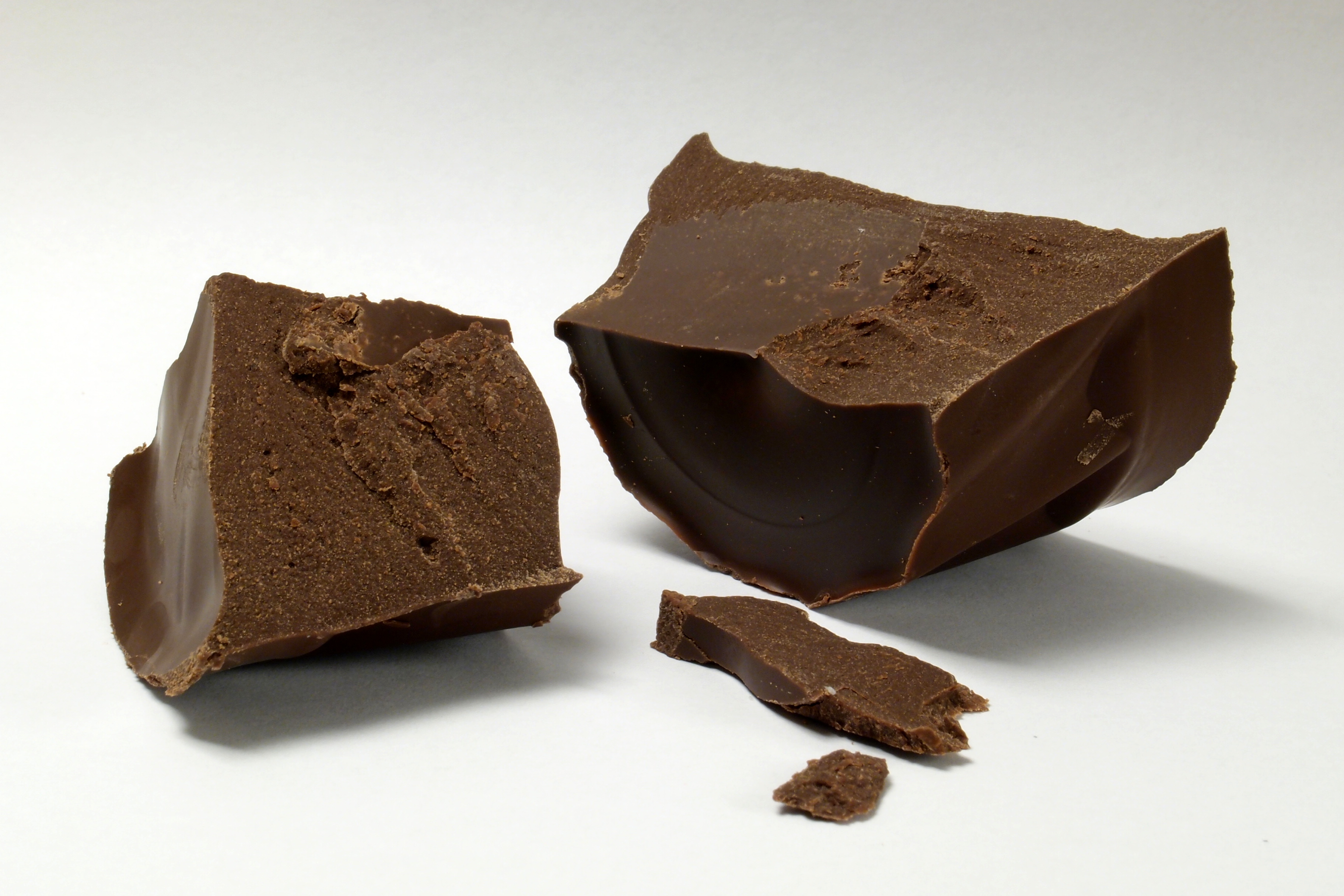 Some pieces of dark compound chocolate to be used for coating cakes. It was made by the German manufacturer Pickerd. According to the label the ingredients are vegetable fat (palm oil), sugar, low-fat cocoa, and the emulsifier E472c, with a cocoa content of 20 %.